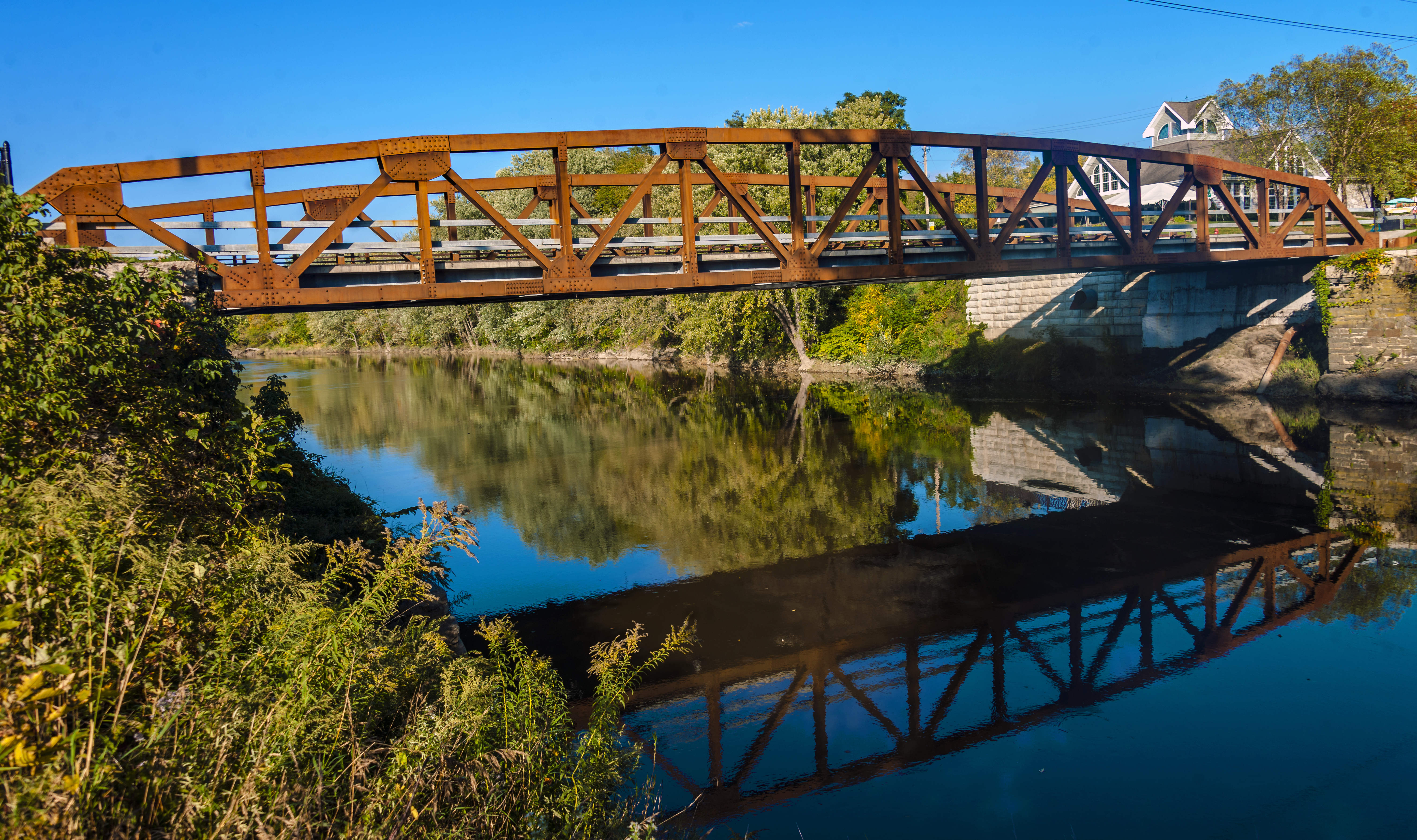 The 2016 replacement Carmine Liberta Bridge, carrying New York State Route 299 over the Wallkill River between the town (left) and village of New Paltz, NY, USA.